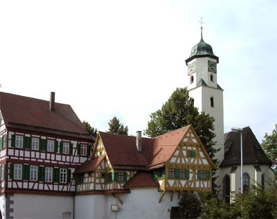 Laichingen, St.-Albans-Kirche